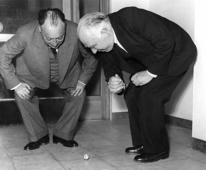 Wolfgang Pauli and Niels Bohr demonstrating 'tippe top' toy at the inauguration of the new Institute of Physics at Lund; Sweden